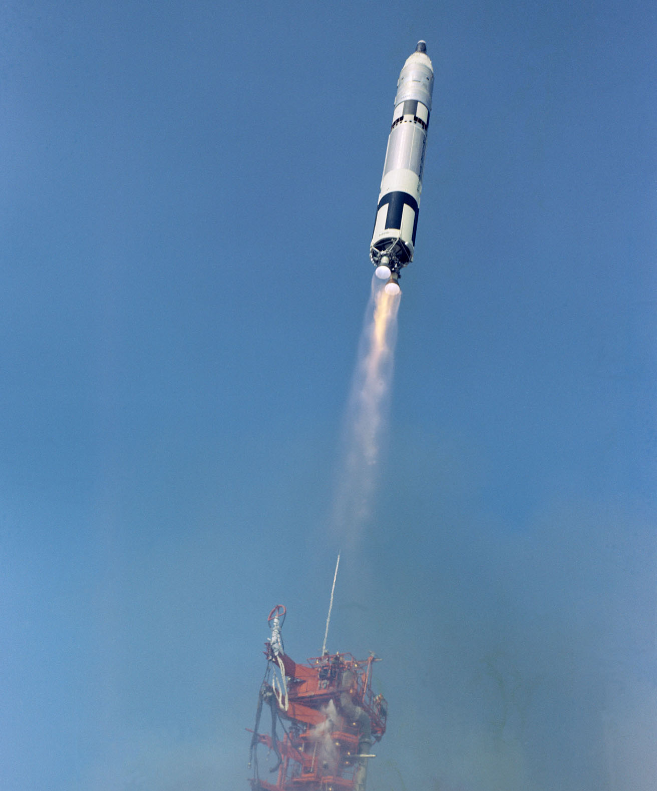 The Gemini-9 spacecraft, carrying astronauts Thomas P. Stafford, command pilot, and Eugene A. Cernan, pilot, was successfully launched by the National Aeronautics and Space Administration from the Kennedy Space Center's Launch Complex 19 at 8:39 a.m. (EST), June 3, 1966.